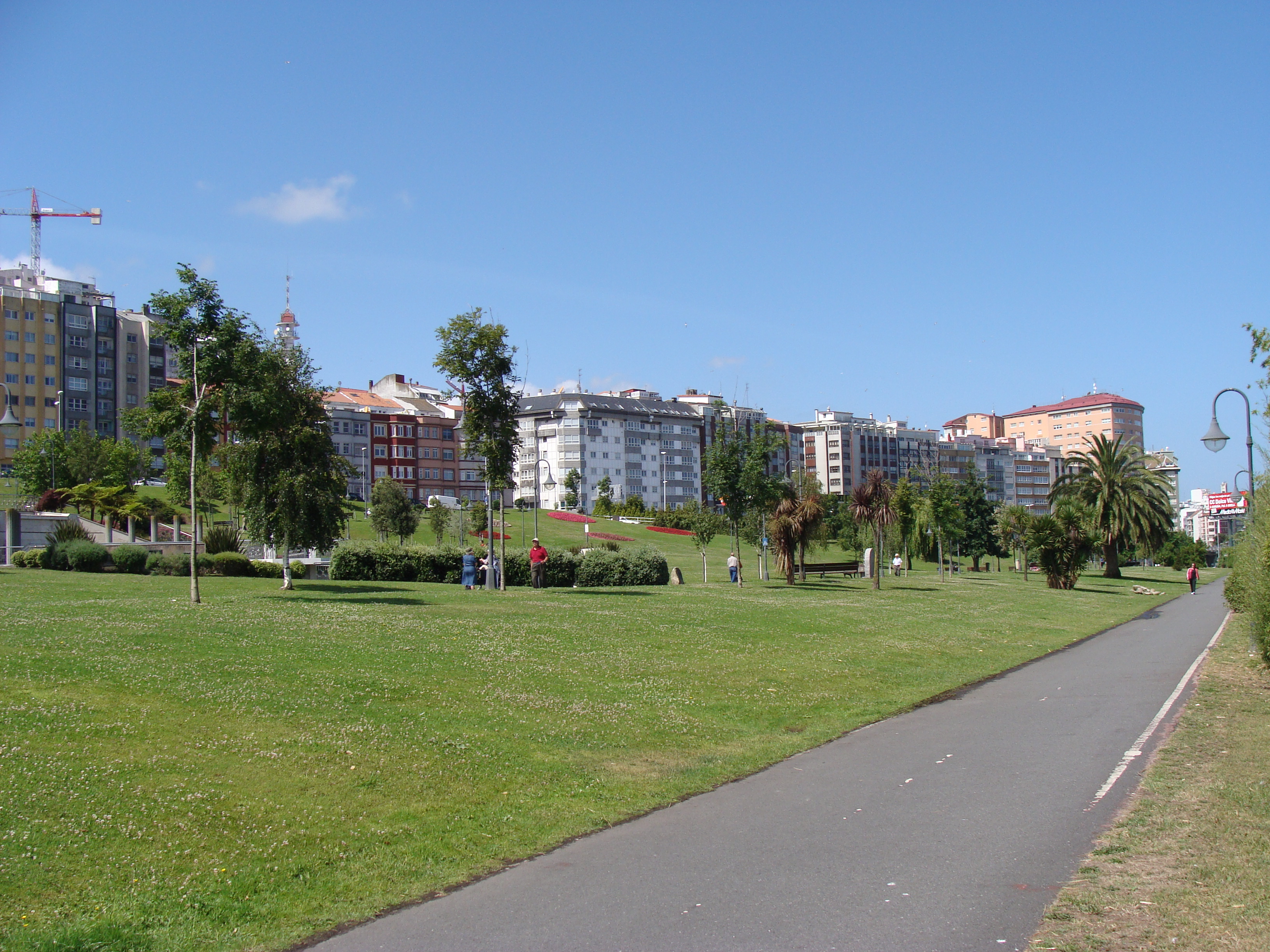 Saint Diego's Park in Corunna, Galicia, Spain